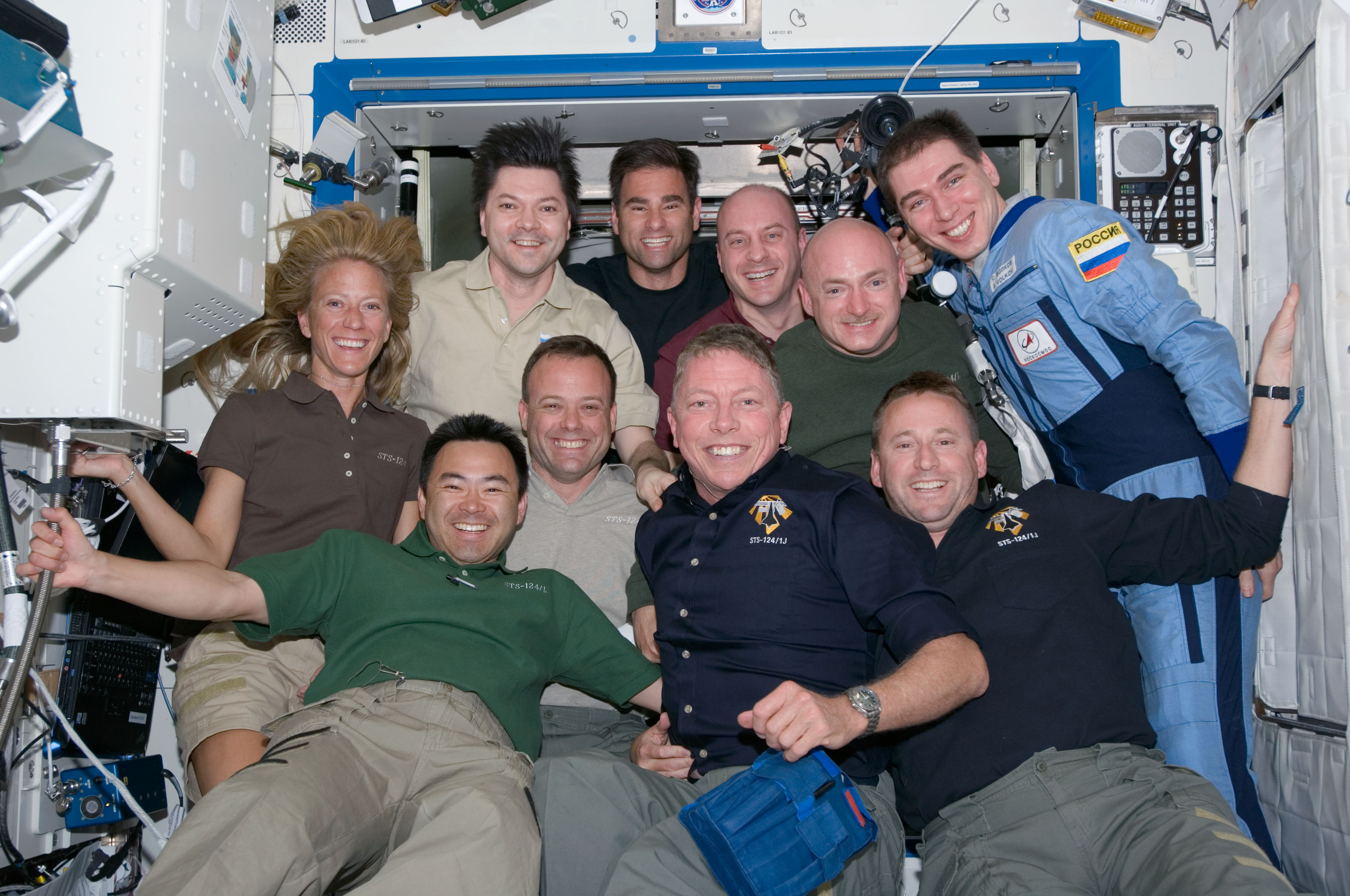 The STS-124 and Expedition 17 crewmembers pose for a group portrait in the Destiny laboratory of the International Space Station while Space Shuttle Discovery is docked with the station. From the left (front row) are NASA astronaut Karen Nyberg, Japan Aerospace Exploration Agency astronaut Akihiko Hoshide, NASA astronauts Ron Garan, Mike Fossum, all STS-124 mission specialists; and Ken Ham, STS-124 pilot. From the left (back row) are Russian Federal Space Agency cosmonaut Oleg Kononenko, NASA astronaut Greg Chamitoff, both Expedition 17 flight engineers; astronaut Garrett Reisman, STS-124 mission specialist; Mark Kelly, STS-124 commander; and Russian Federal Space Agency cosmonaut Sergei Volkov, Expedition 17 commander. Reisman, who joined the station's crew in March, is being replaced by Chamitoff, who arrived at the station with the STS-124 crew.